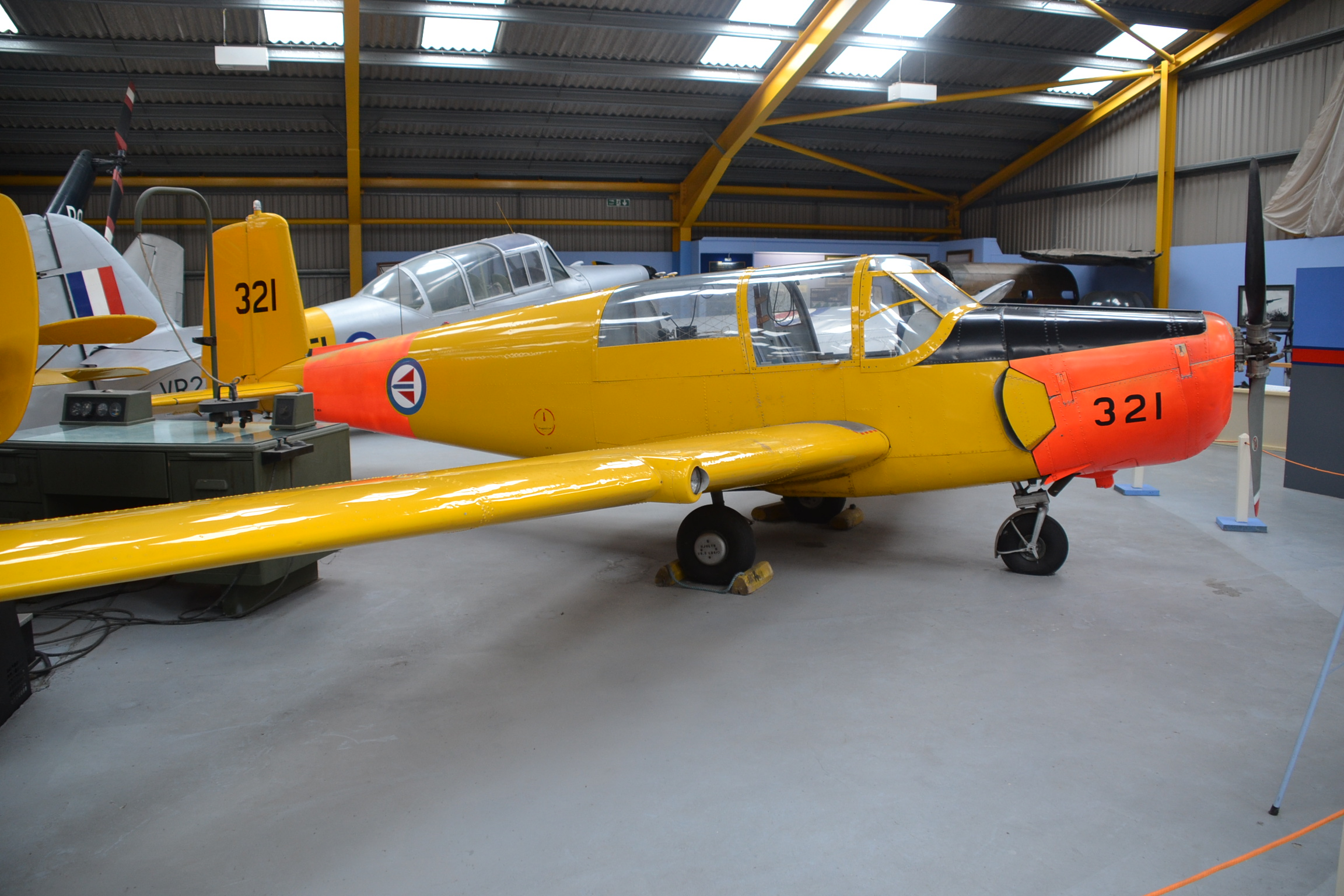 SAAB S.91 Safir B-2 at Newark Air Museum, Winthorpe, Notts.,19/09/14.